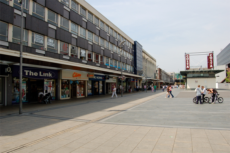 Photograph of Basildon Town Centre. Picture faces due West towards Westgate.